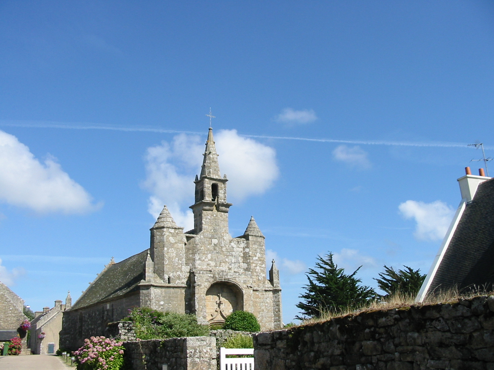 France, Britanny, Plouharnel